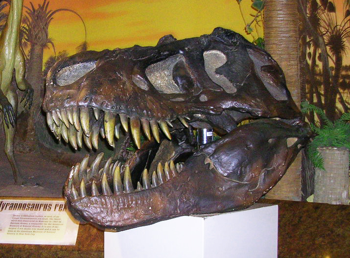 Dinosaur diorama in the Fernbank Science Center, 156 Heaton Park Drive, unincorporated DeKalb County, Georgia. 33°46′43″N 84°19′5″W / 33.77861°N 84.31806°W